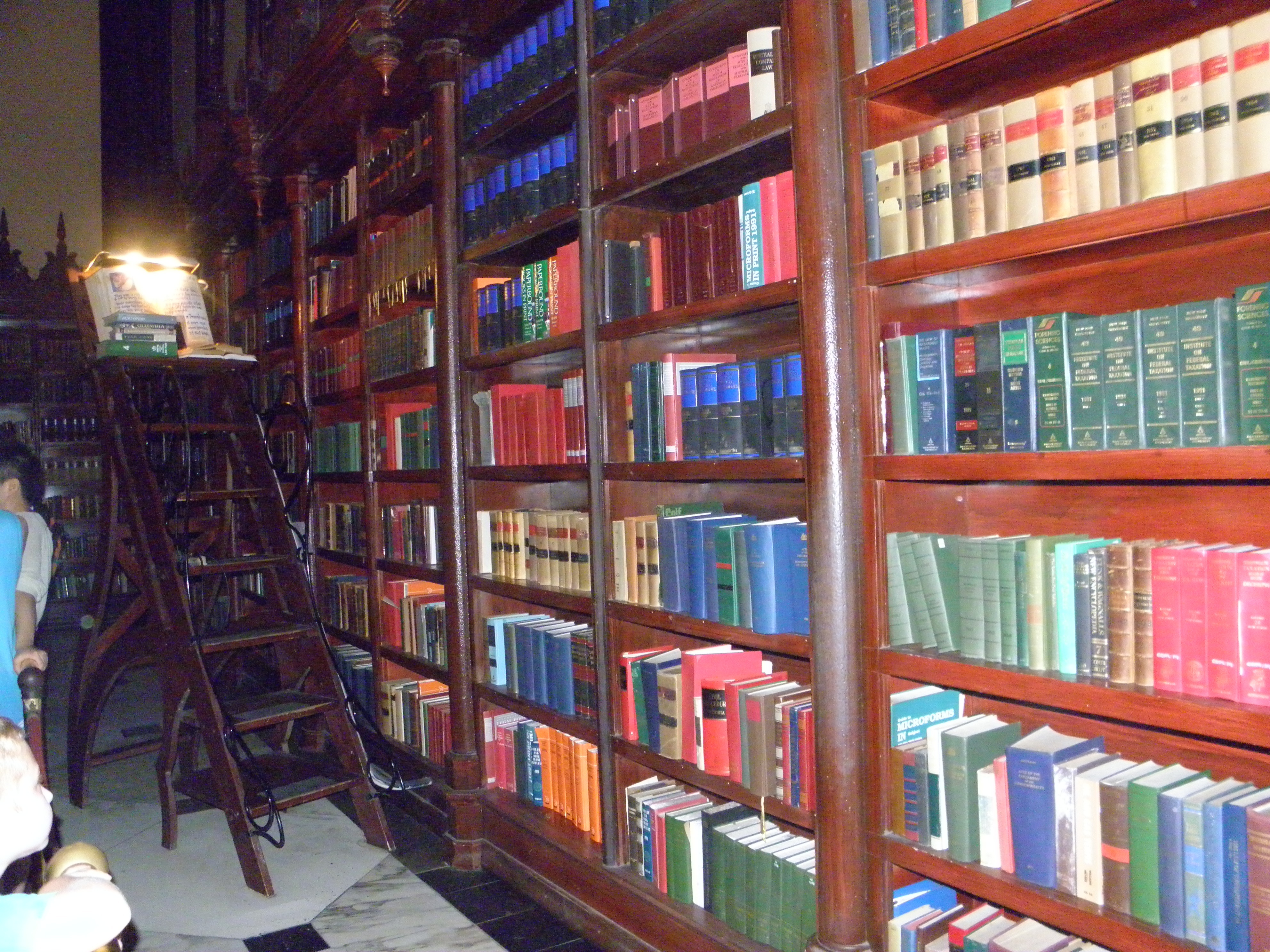 The library is the first preshow room in Batman Adventure - The Ride 2 at Warner Bros. Movie World.